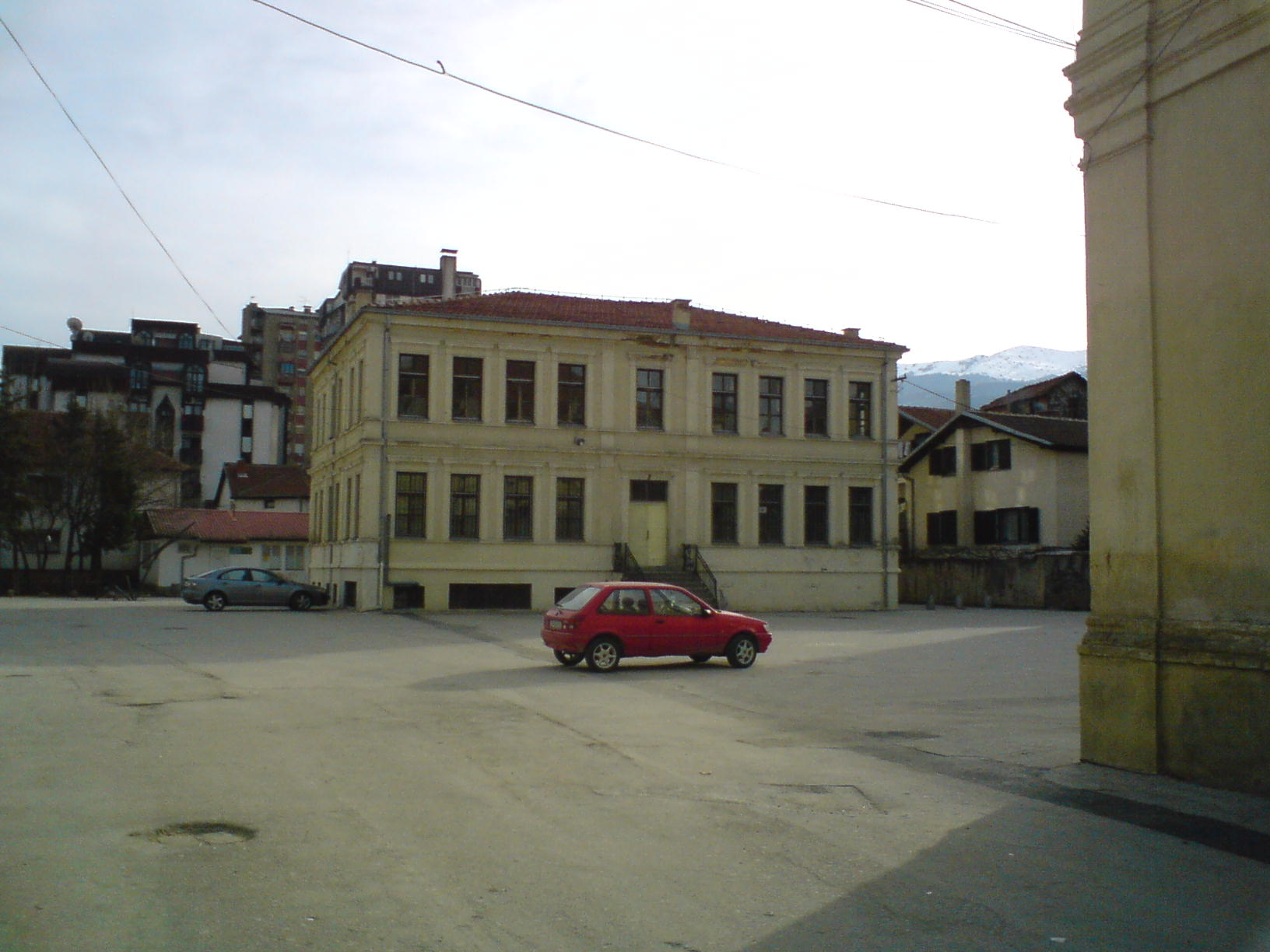 The other school building of the Goce Delchev primary school in Bitola